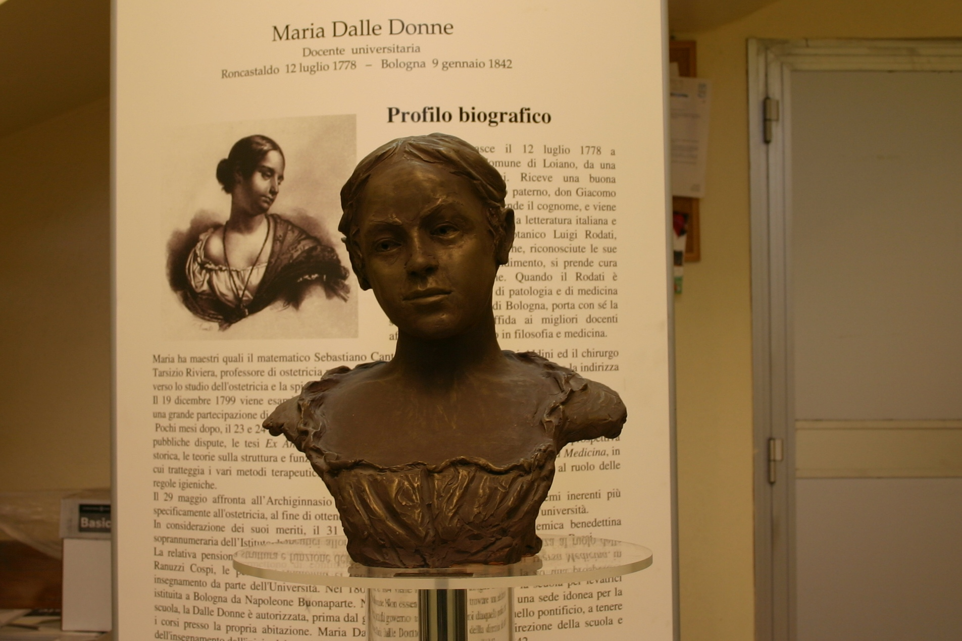 This bronze bust of Maria Dalle Donne, by Italian sculptor Carlo Anleri, can be seen in the lobby of the Municipality Hall of Loiano. The little monument is accompanied by an explanatory panel by Giovanna Gironi that tells the story of this pioneer woman physician.